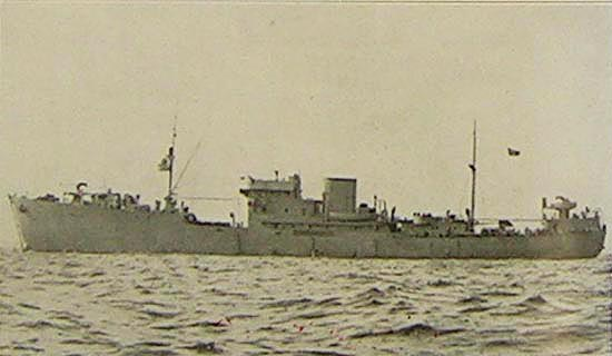 Deutscher Minenleger Ulm grau gestrichen kurz vor ihrer letzten Operation (Unternehmen „Zar“)